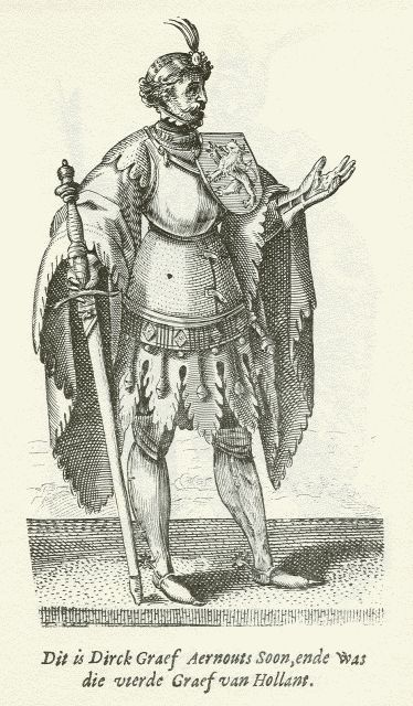 From: "32 Afbeeldinge der Graven van Hollandt uit het Oude Goudtsche Kronycxken, In 't Kooper verciert door Adrianus Matham" (32 images of the counts of Holland from the old Gouda Chronicle, decorated in copper by Adrianus Matham), 1663.